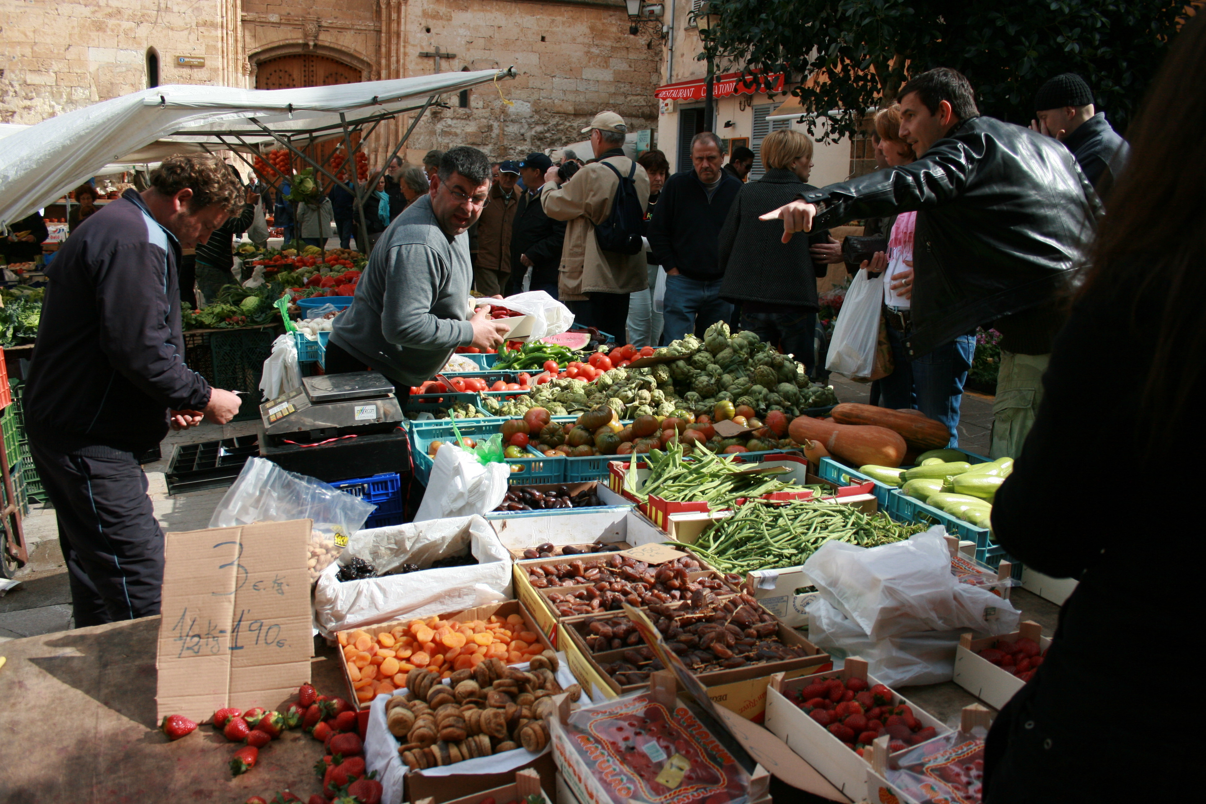 Market in Sineu, Mallorca